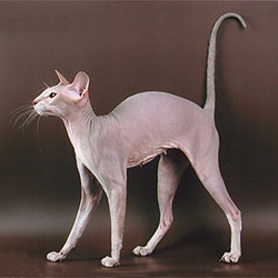 Lilac tabby Peterbald female Tamila of Natural Elegance.